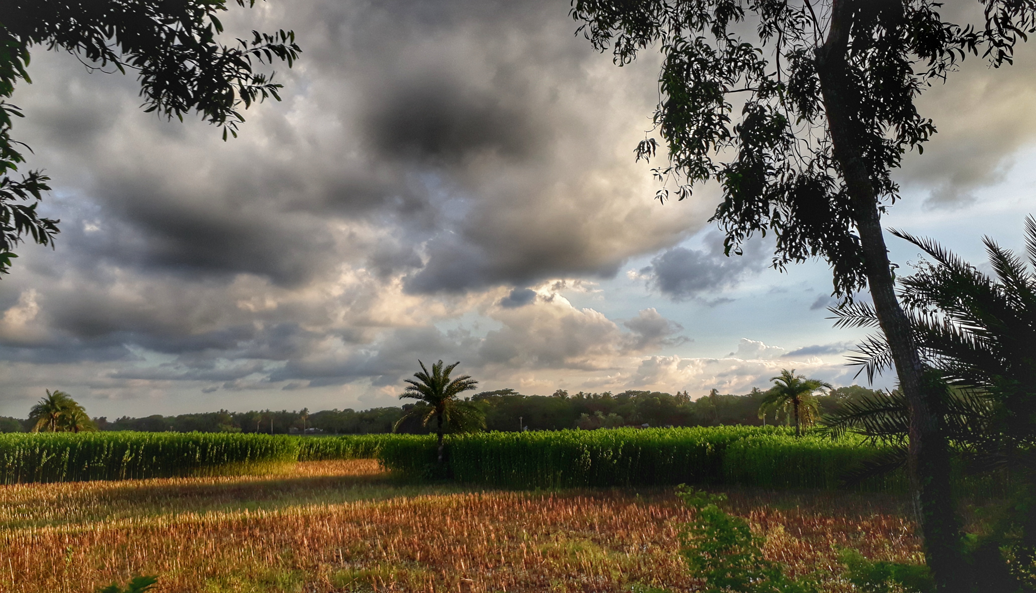 Cultivatable lands in Manirampur Upazila, Jashore, Bangladesh.